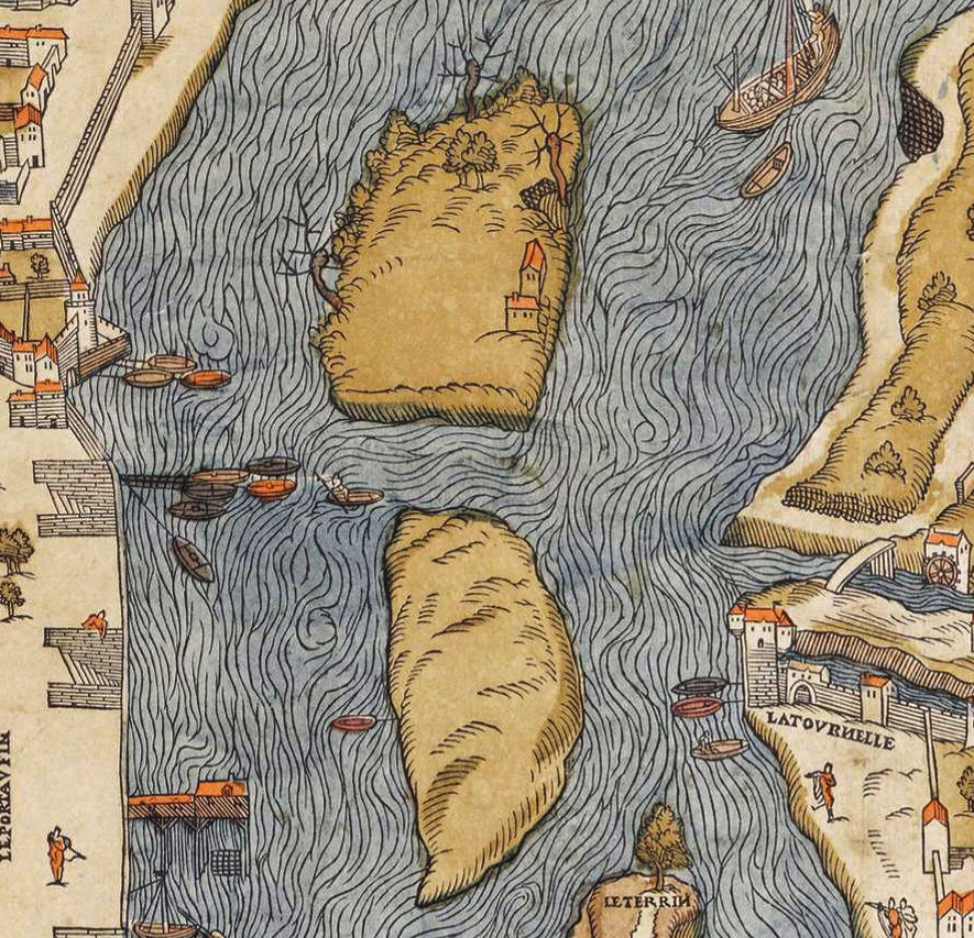 Île aux Vaches & île Notre-Dame ca. 1550.